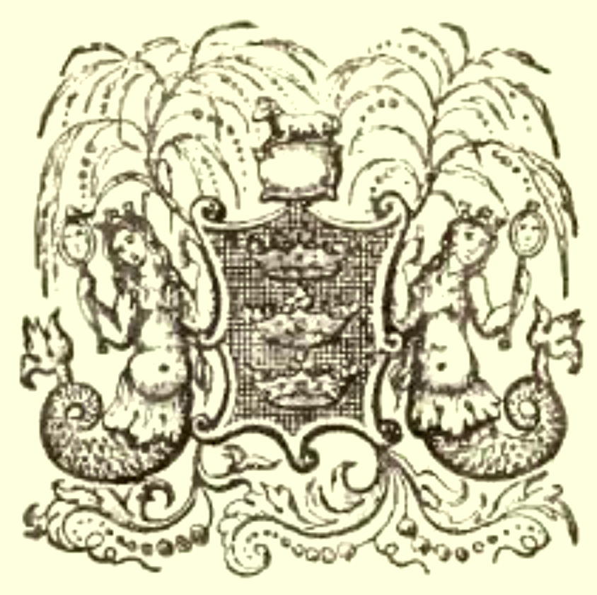 Caption: "Arms of Boston." The coat of arms of the city of Boston, England.